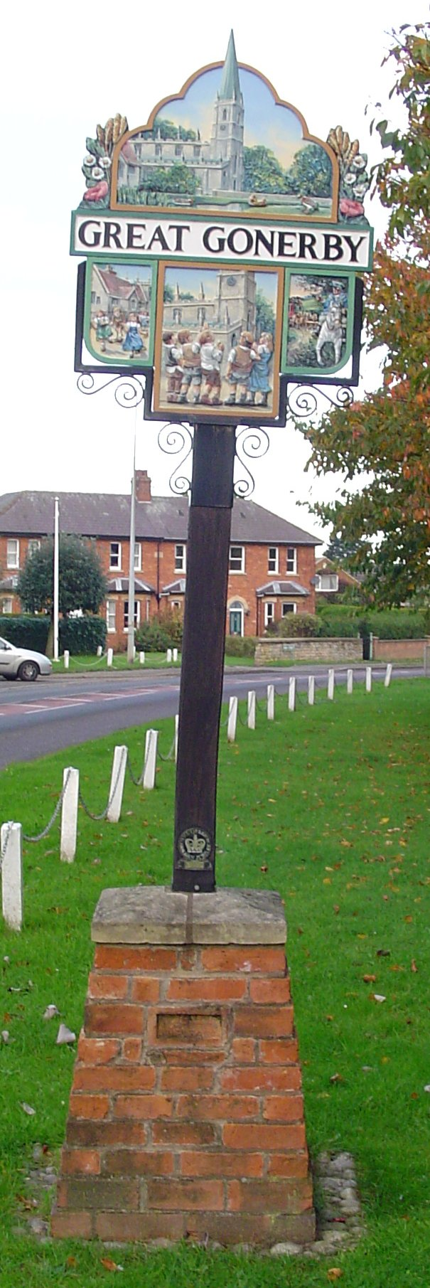 Signpost in Great Gonerby